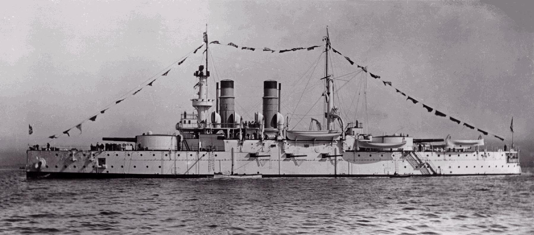 Imperial Russian Ironclad warship Sisoy Velikiy.